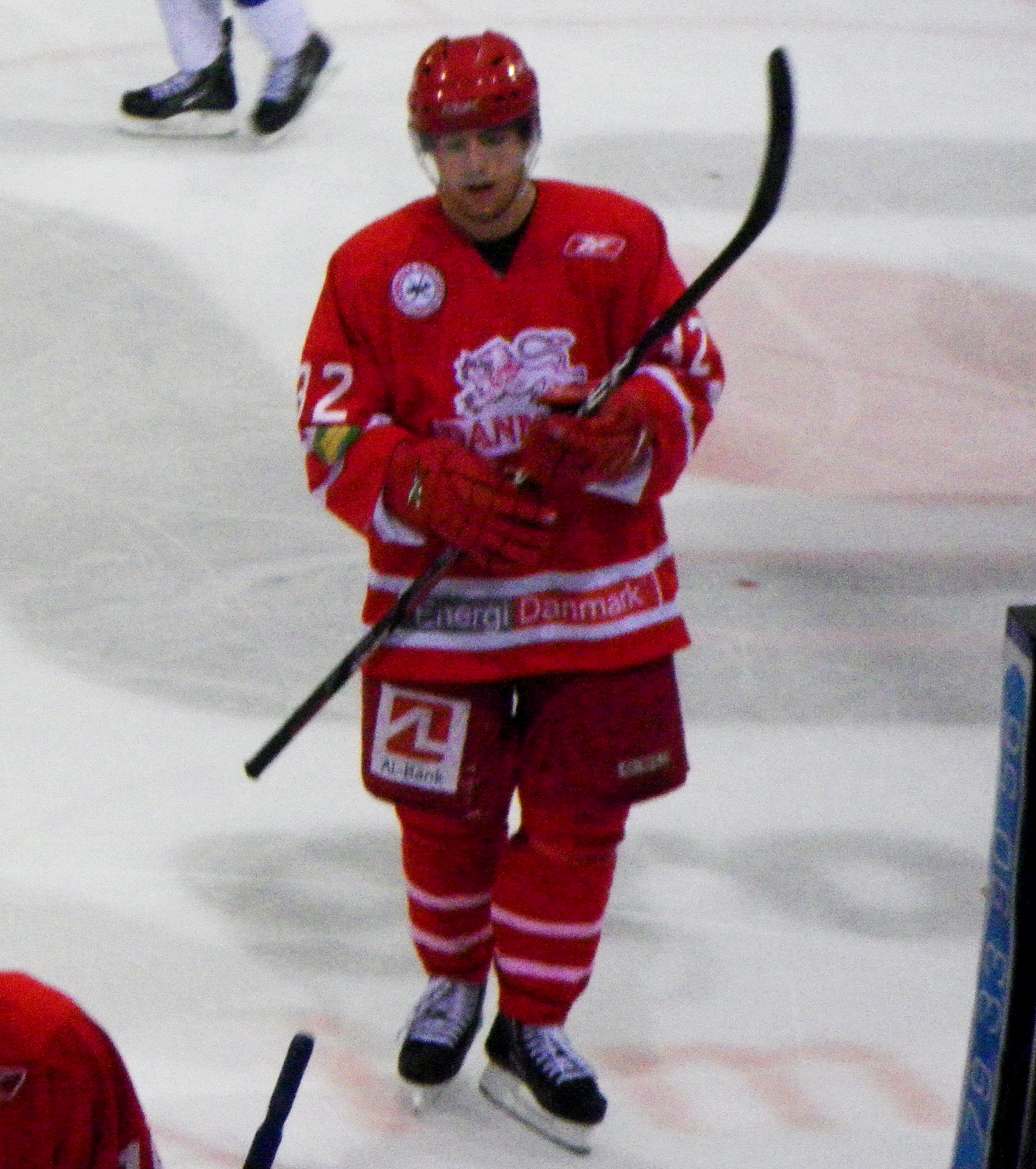 Danish ice hockey player Nichlas Hardt with team Denmark. Friendly against team France.